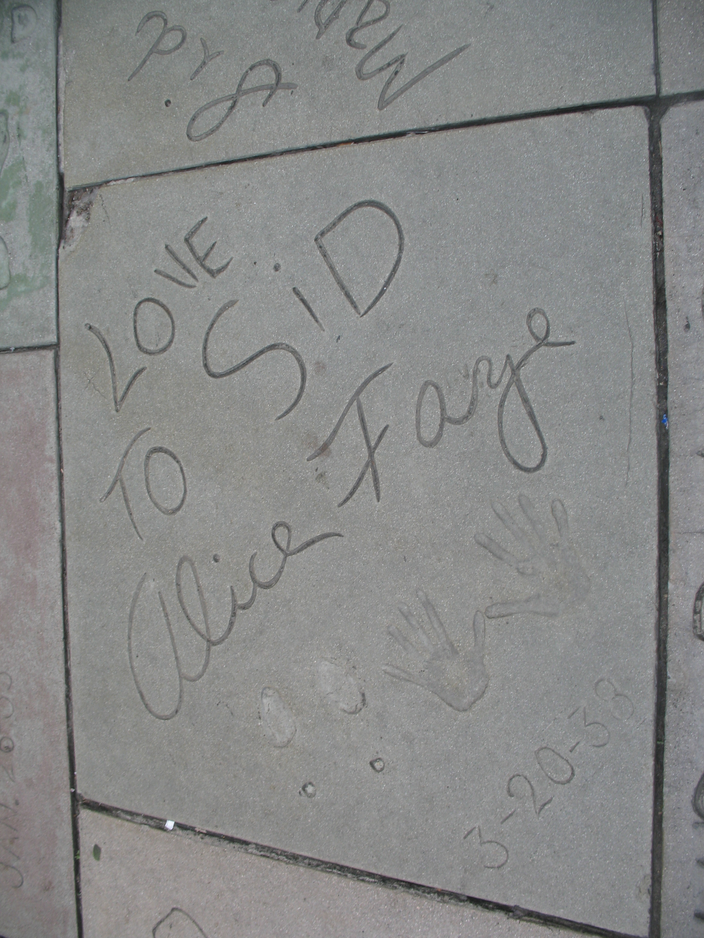 Alice Faye's handprint/signature in front of the Grauman's Chinese Theatre.